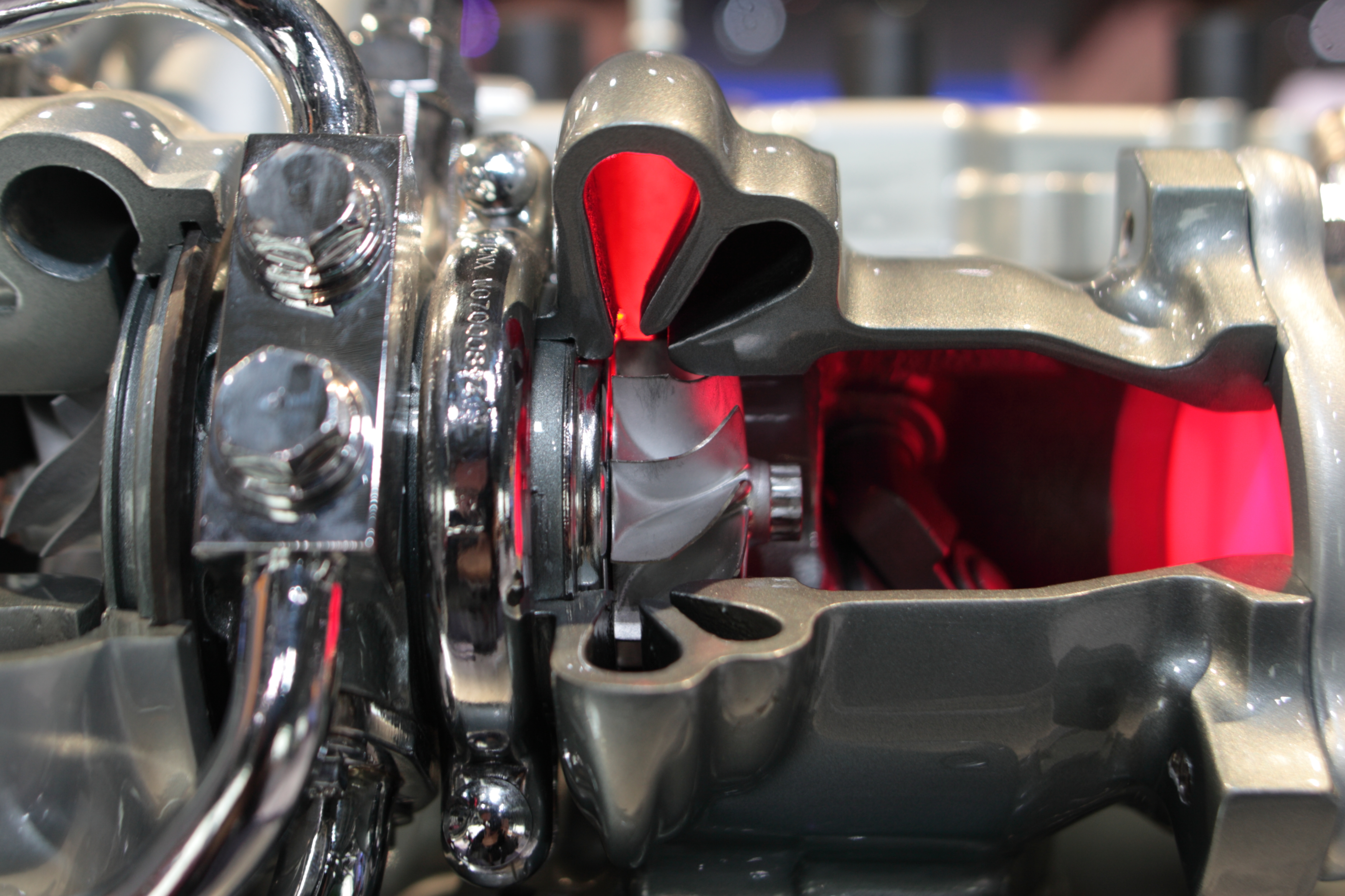 Cut-out model of a twin-scroll turbocharger made by Mitsubishi for the Renault F4Rt engine